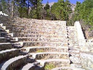 Open Air Amphitheature at Crystal Lake